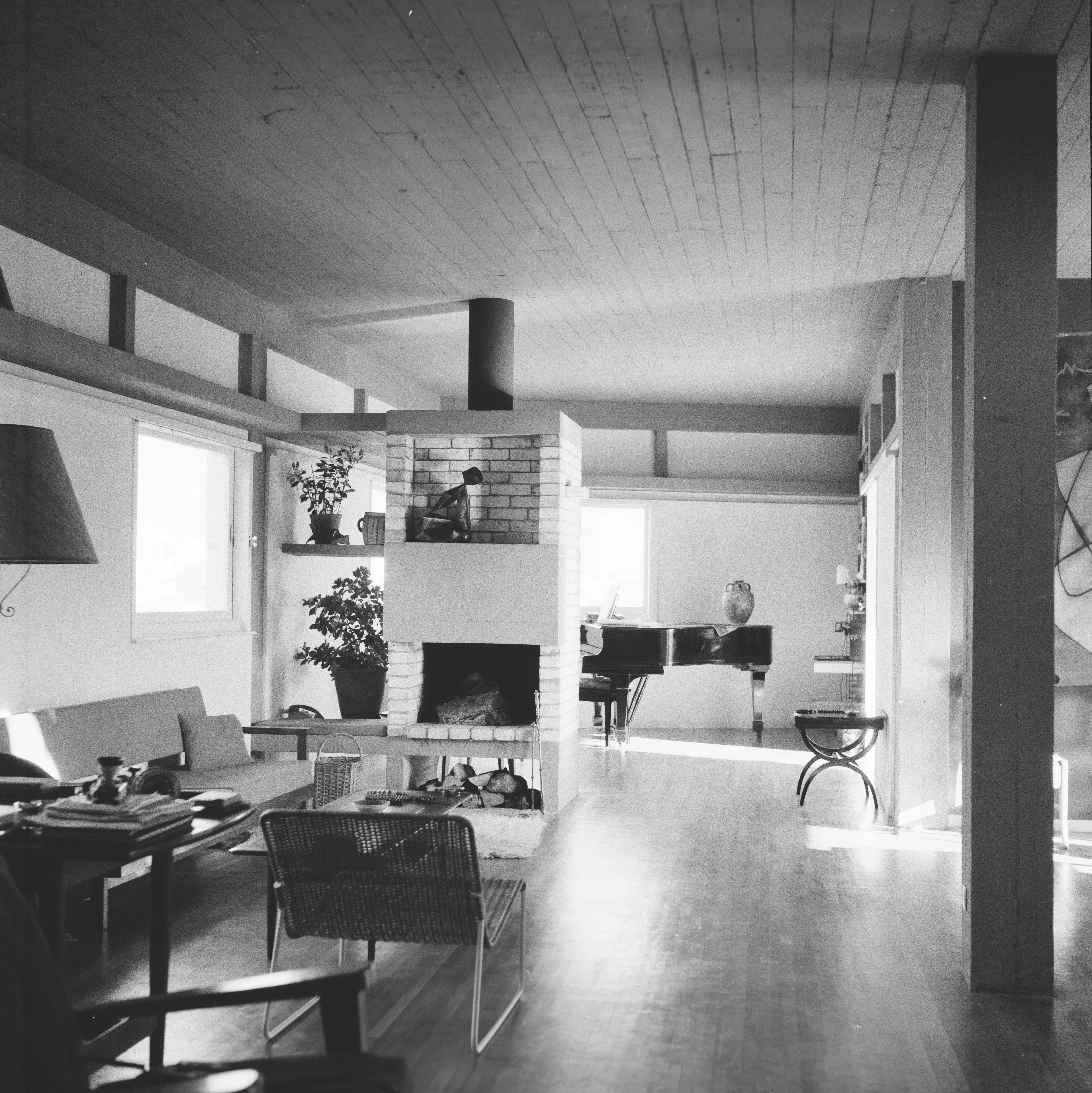 Photo of the interior of a one-family house in athens